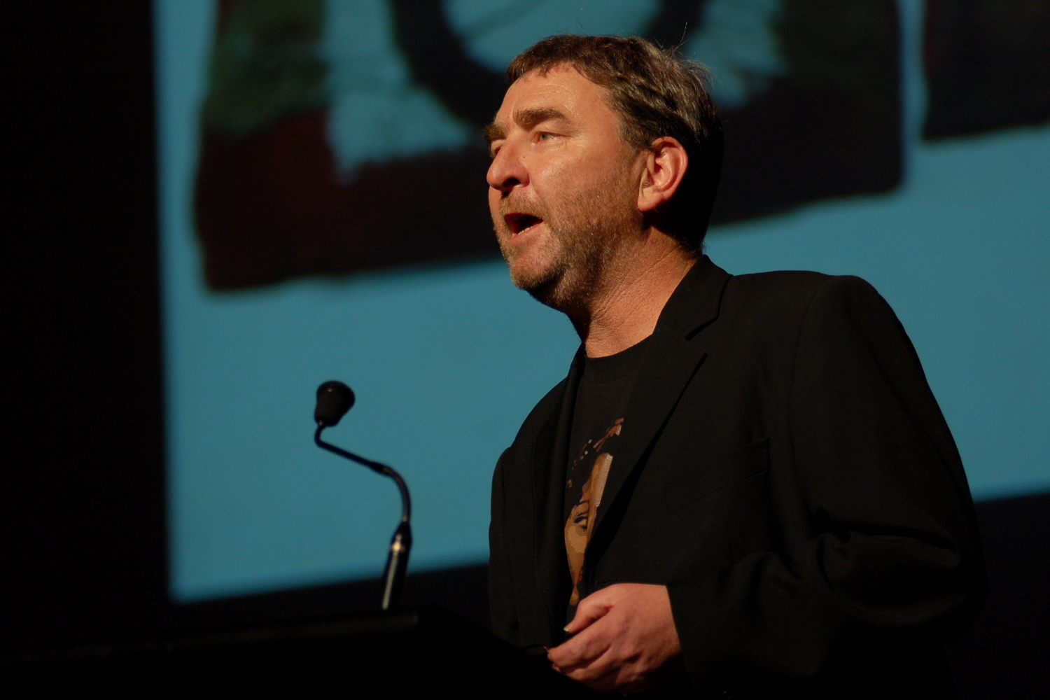 Public Address's Russell Brown, emcee of the Orcon Great Blend at Auckland Town Hall, 4 August 2011. Photo by Petra Jane.